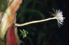 Strophocactus wittii, leafs and flowers